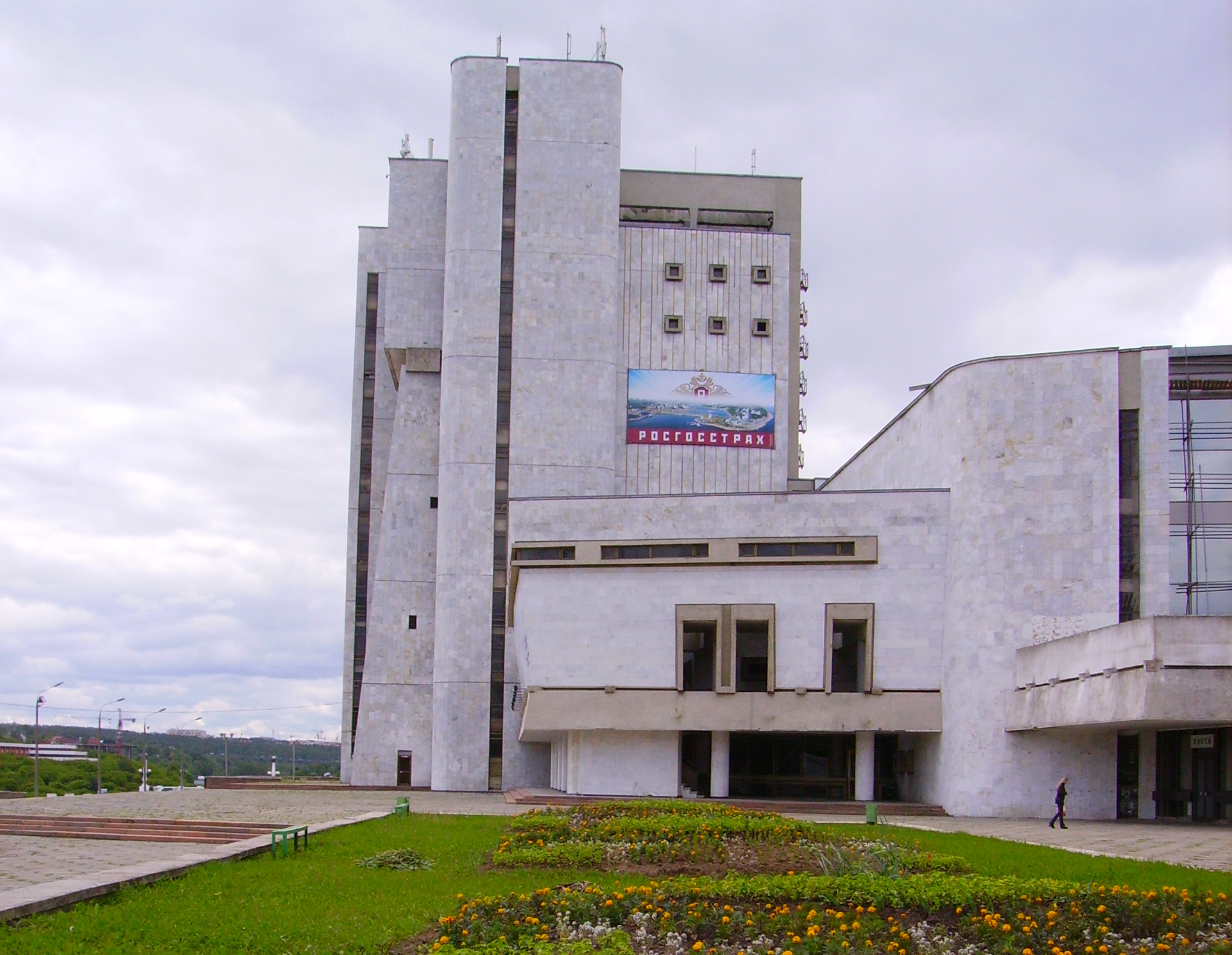 Chuvash Music Theatre